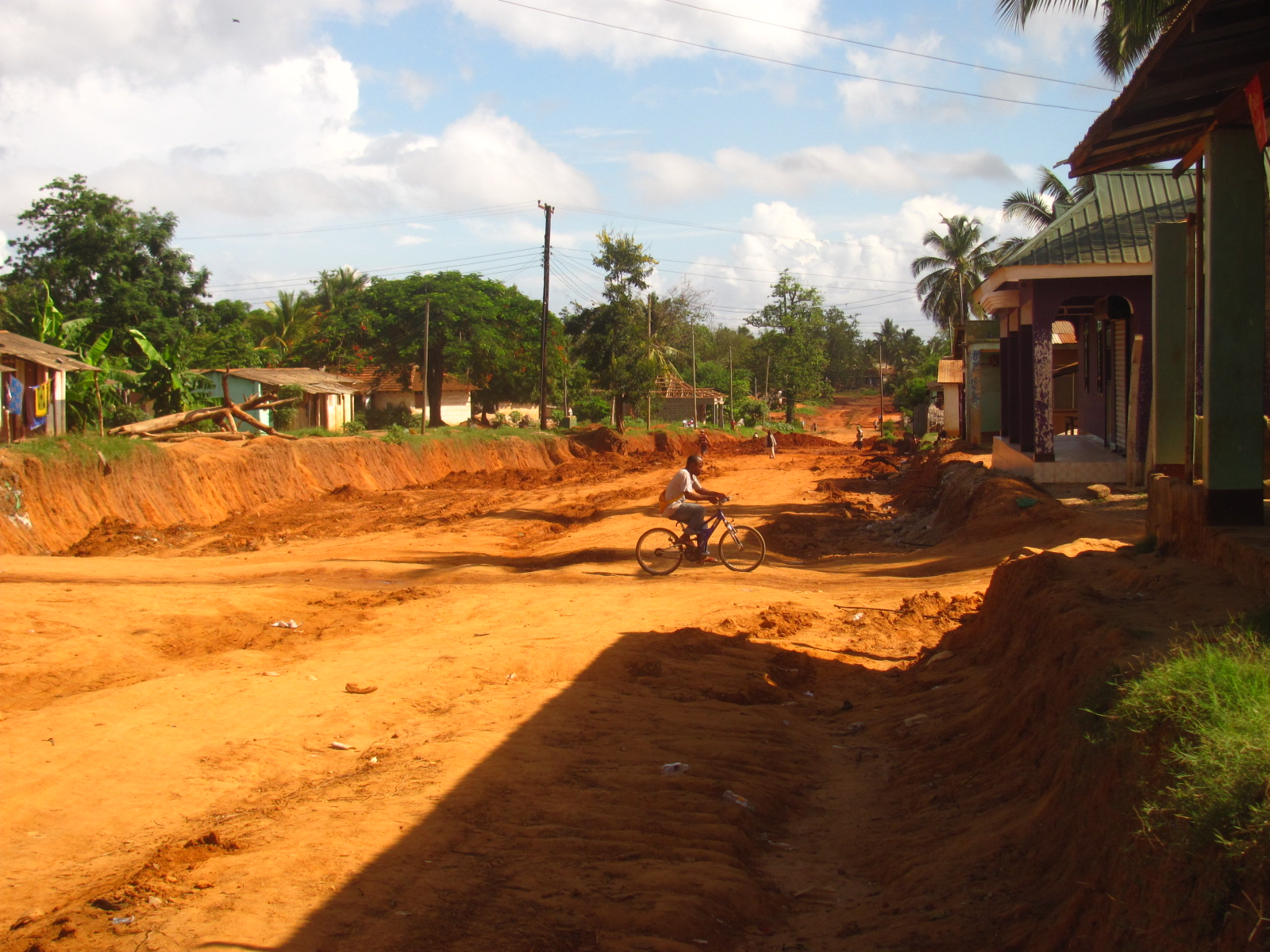 Good foundation for the road under construction in February 2013.